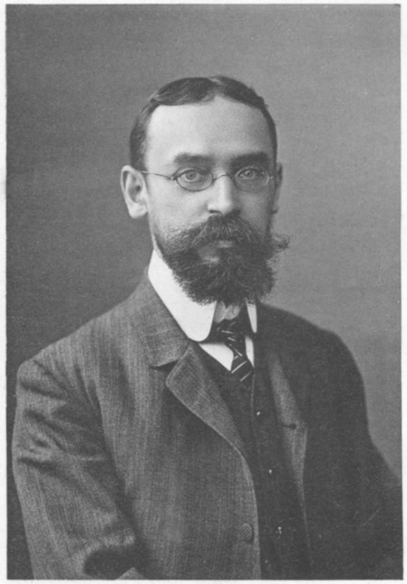 Hermann Johannes Pfannenstiel